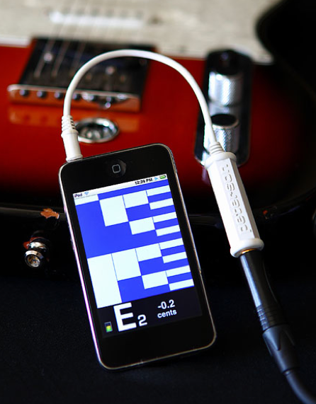 Peterson Electro-Musical Products Virtual Strobe program being used on an iPod Touch